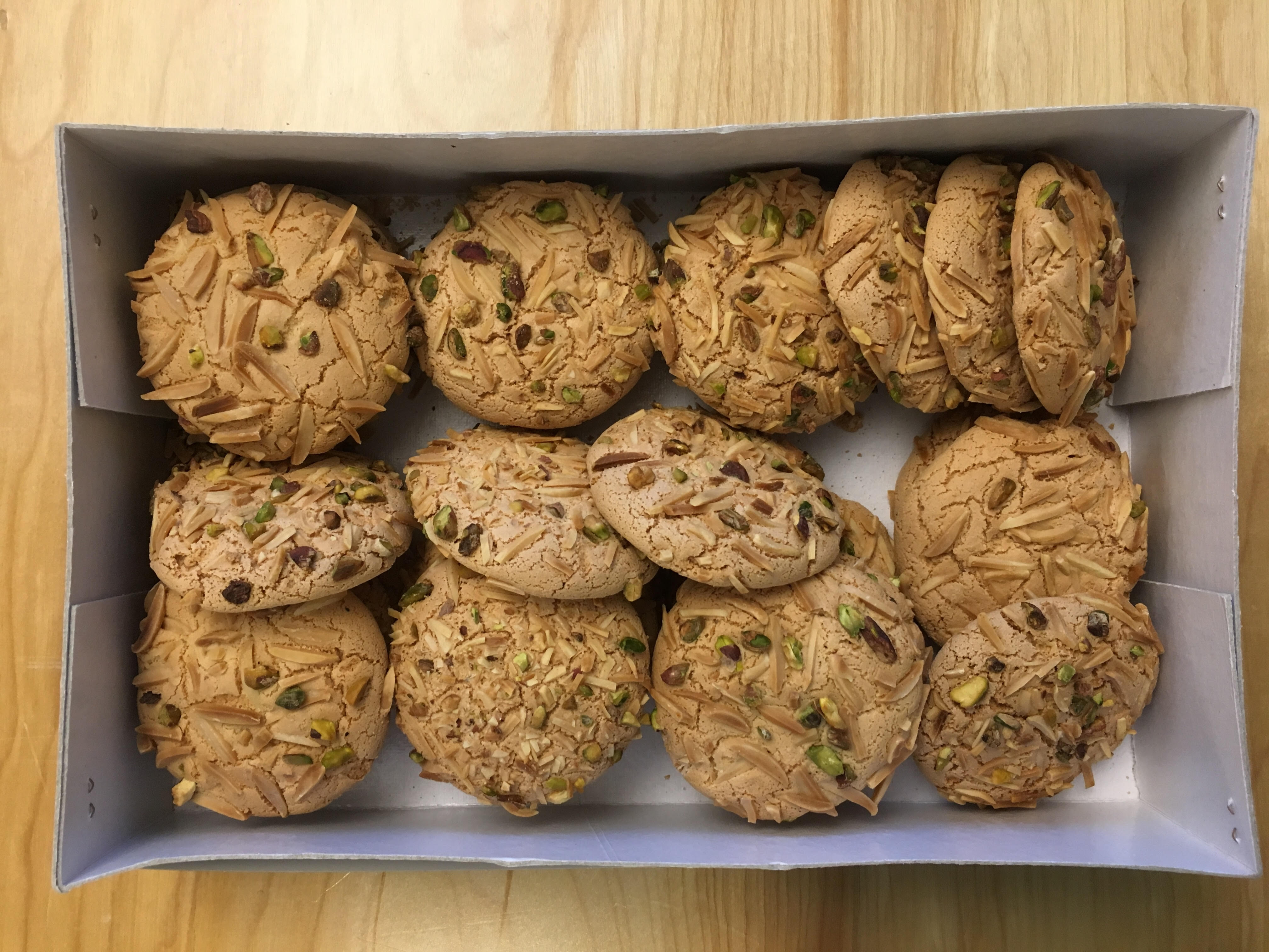 Iranian-Azerbaijani Qurabiya baked in Tehran by Nobari Confectionary.